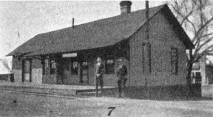 The Train depot of Espanola, New Mexico. Taken in 1920. Denver-Rio Grande Railroad.